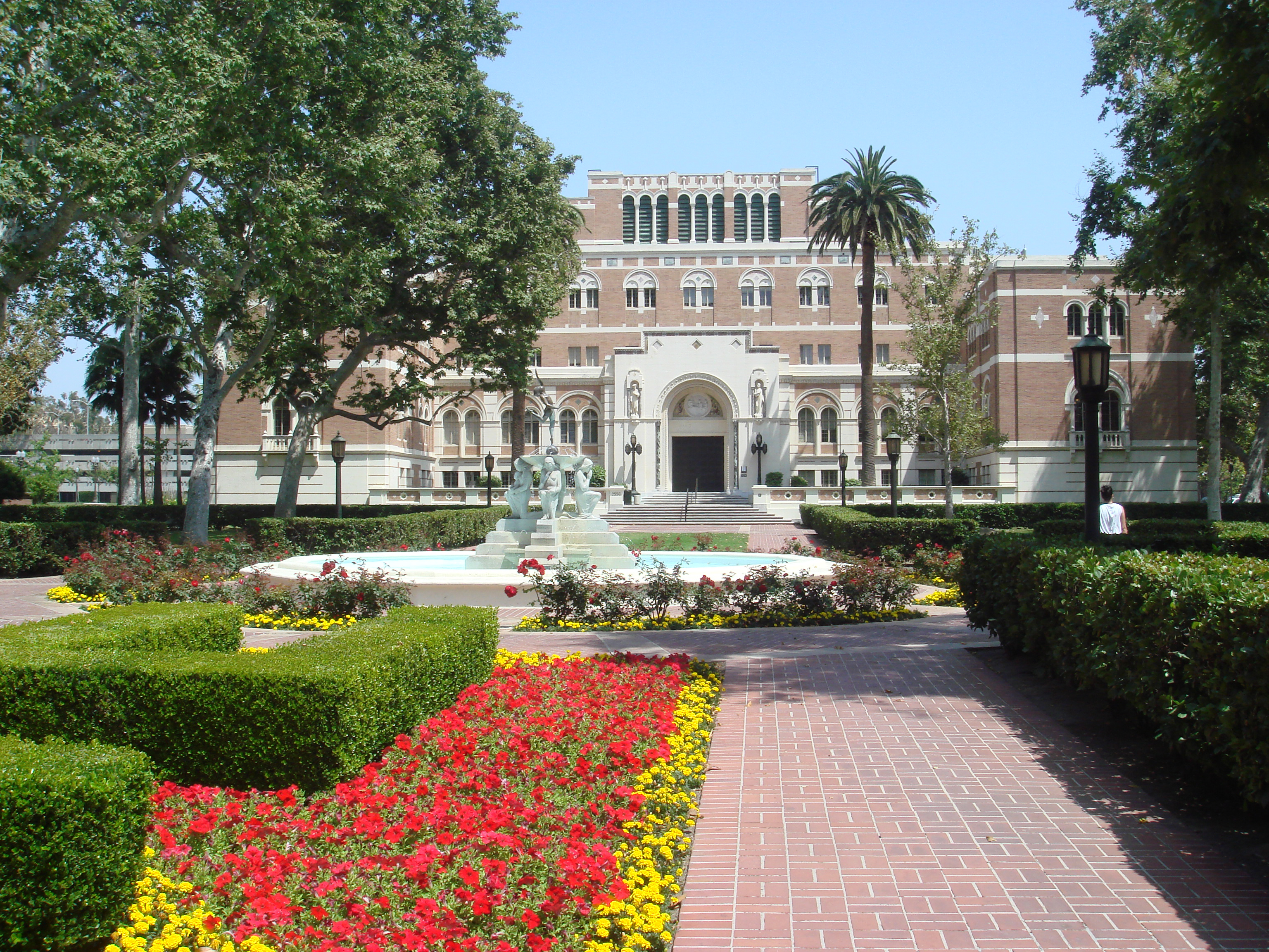 The Edward L. Doheny Jr. Memorial Library, University of Southern California (USC) campus, Los Angeles, California. With the Youth Triumphant fountain by Frederick William Schweigardt in left foreground.